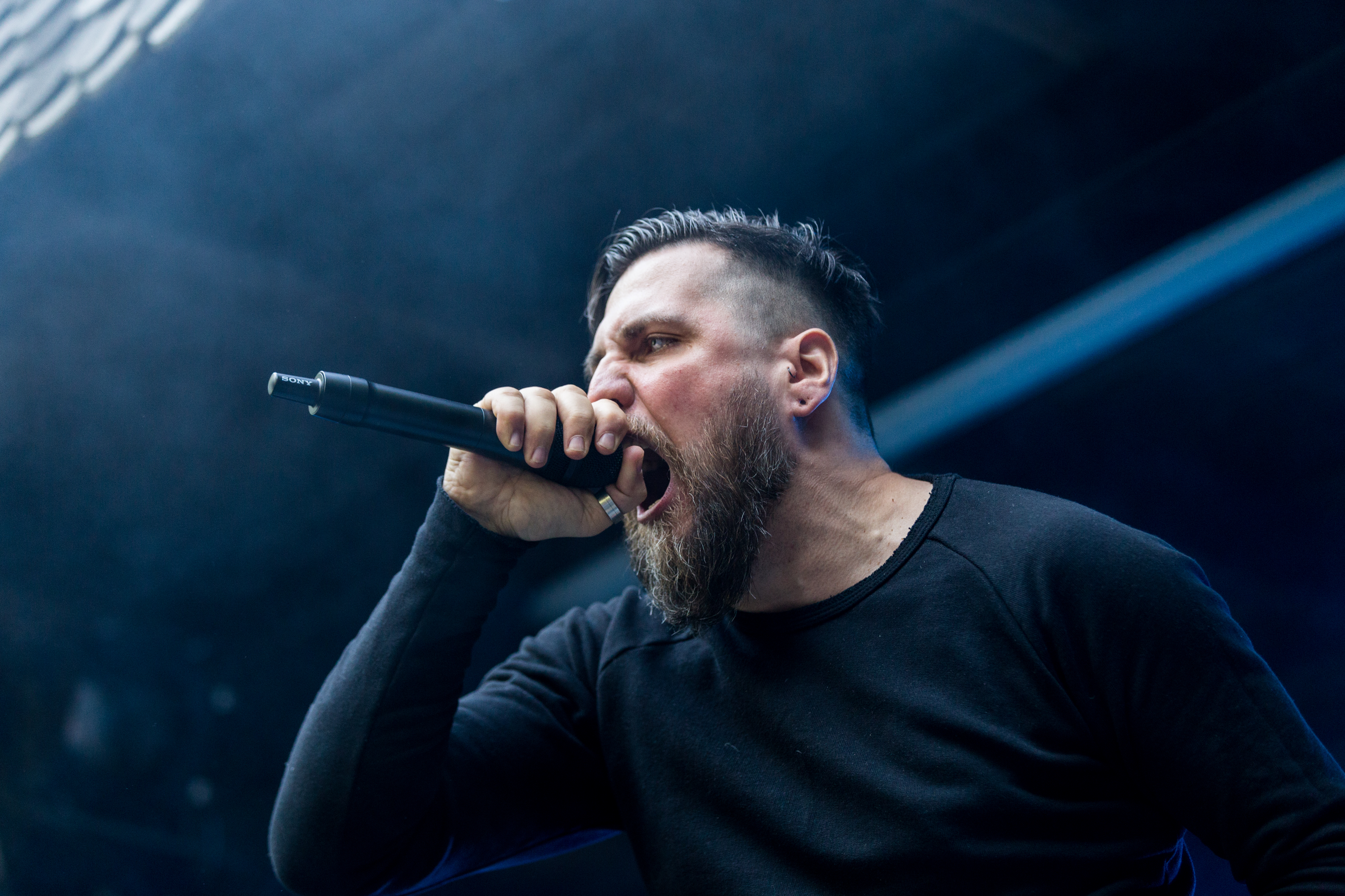 The German pagan metal band Minas Morgul at the Dark Troll Open Air 2017 in Bornstedt/Germany.